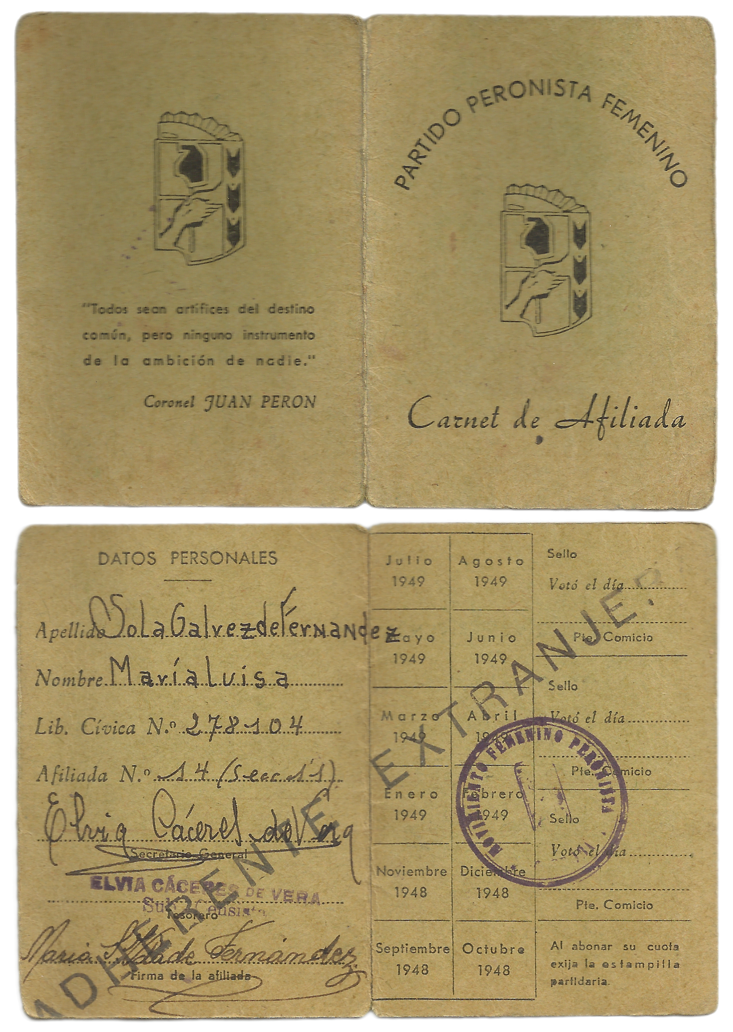 Women's Peronist Party Card